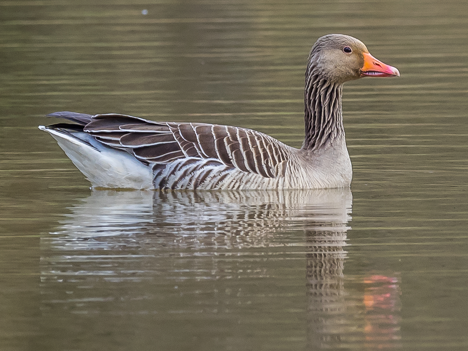 Grågås, Greylag goose, Anser anser, around Stockholm, Sweden